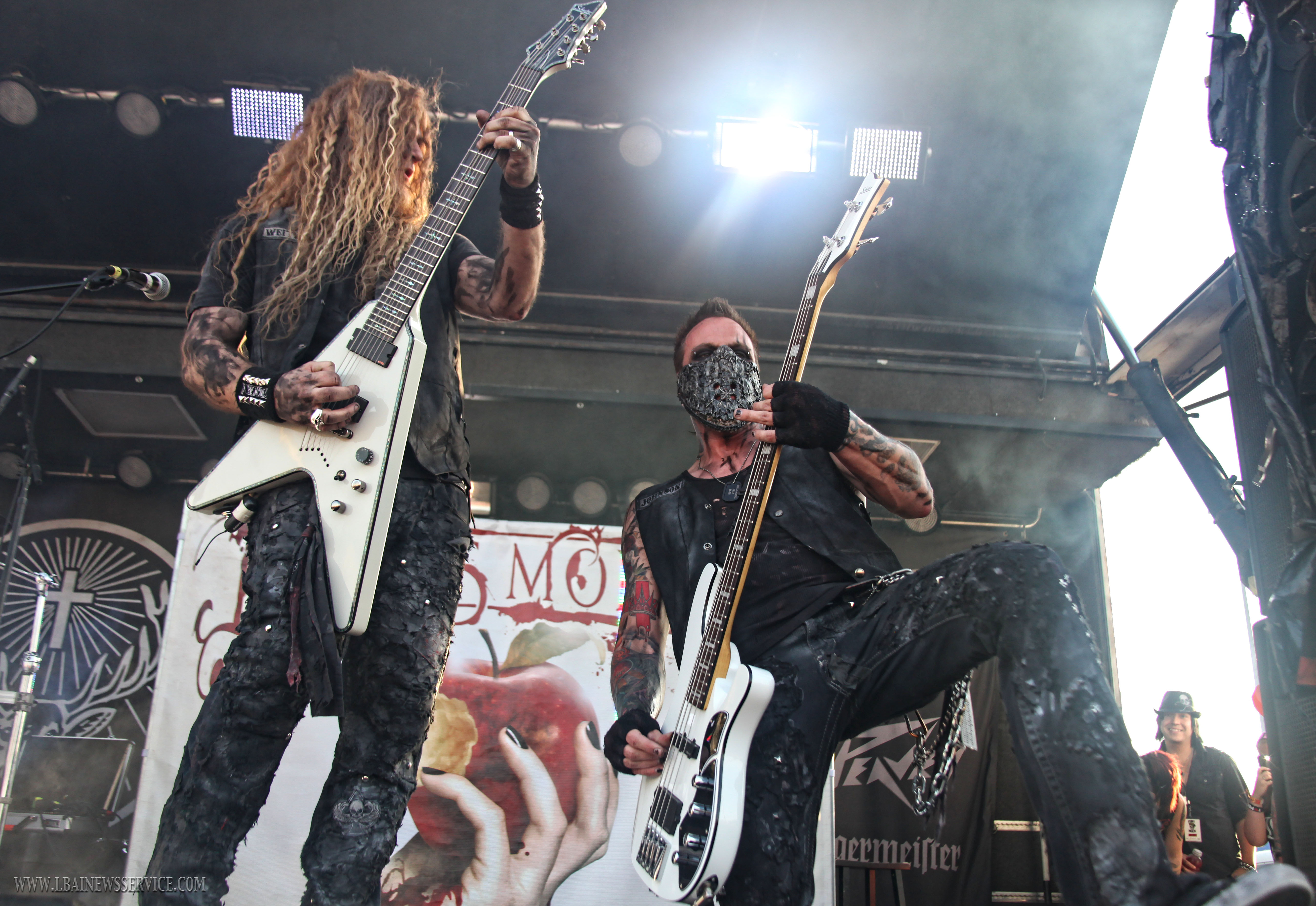 In This Moment performs at Fort Rock Festival 2013 at Jet Blue Park in Fort Myers - April 14, 2013